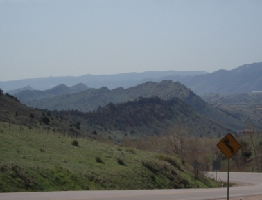 Hogback west of Denver, Colorado. This portion of the hogback forms Dinosaur Ridge.